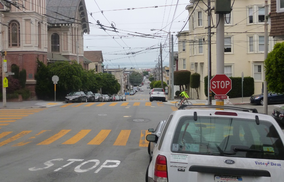 Public sign